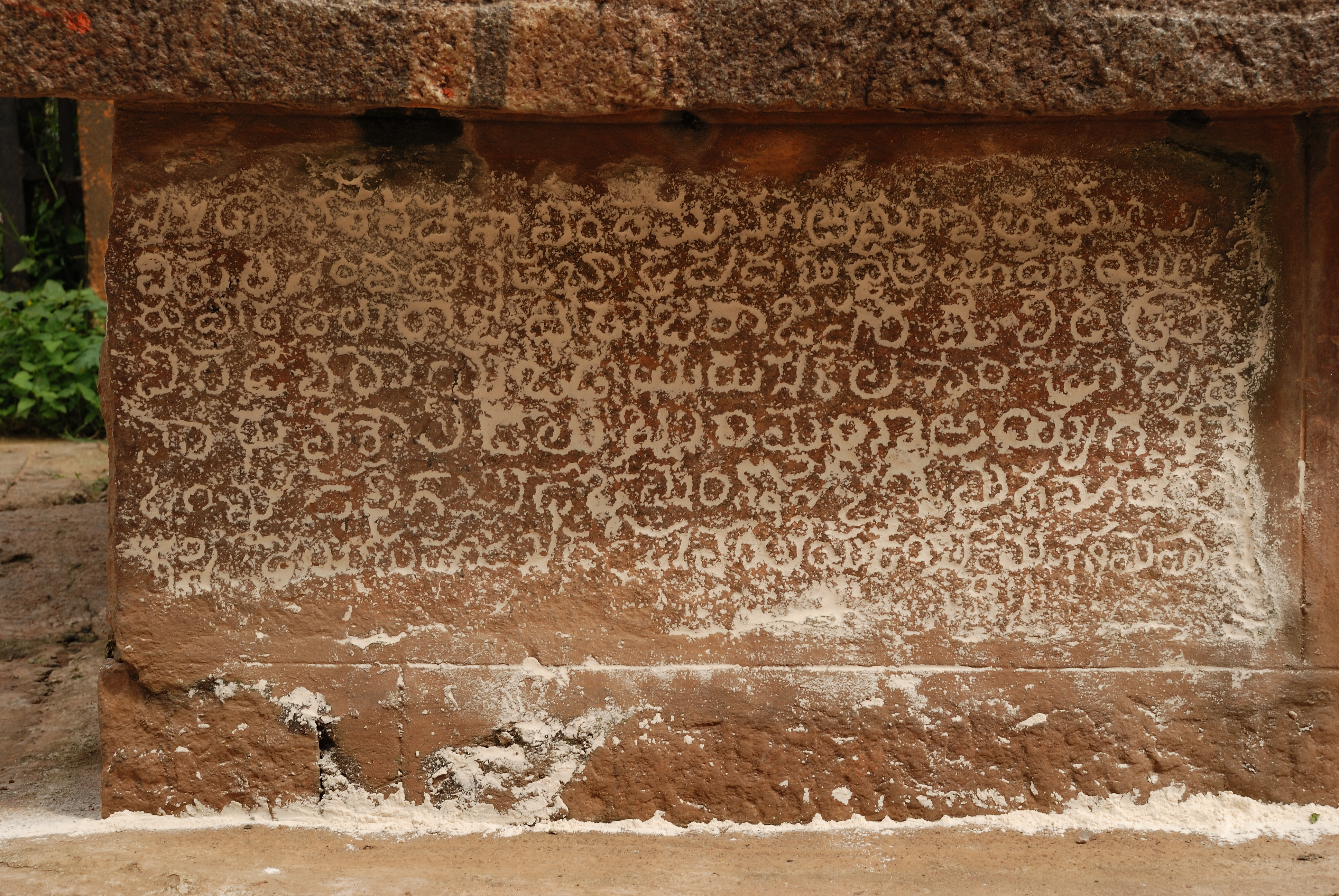 inscriptionstonesofbangalore